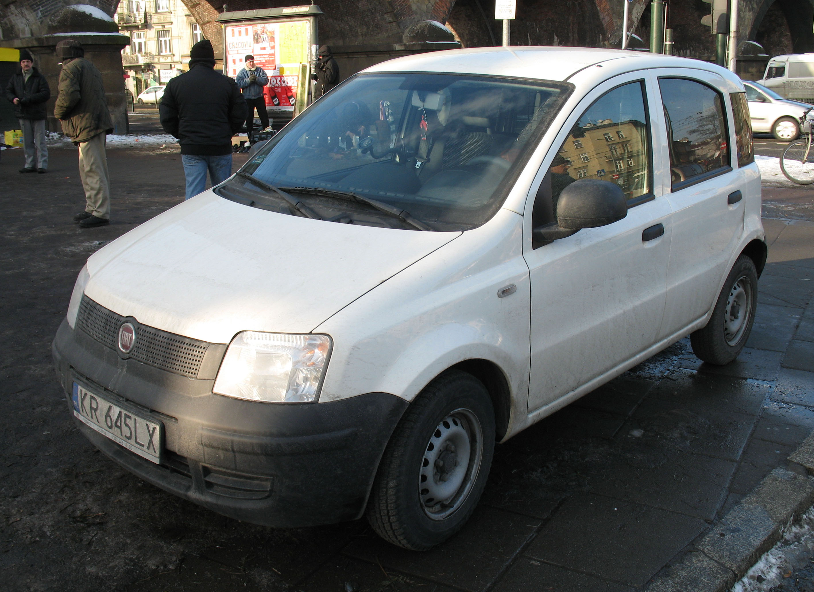 White Fiat Panda Van in Kraków, Poland.